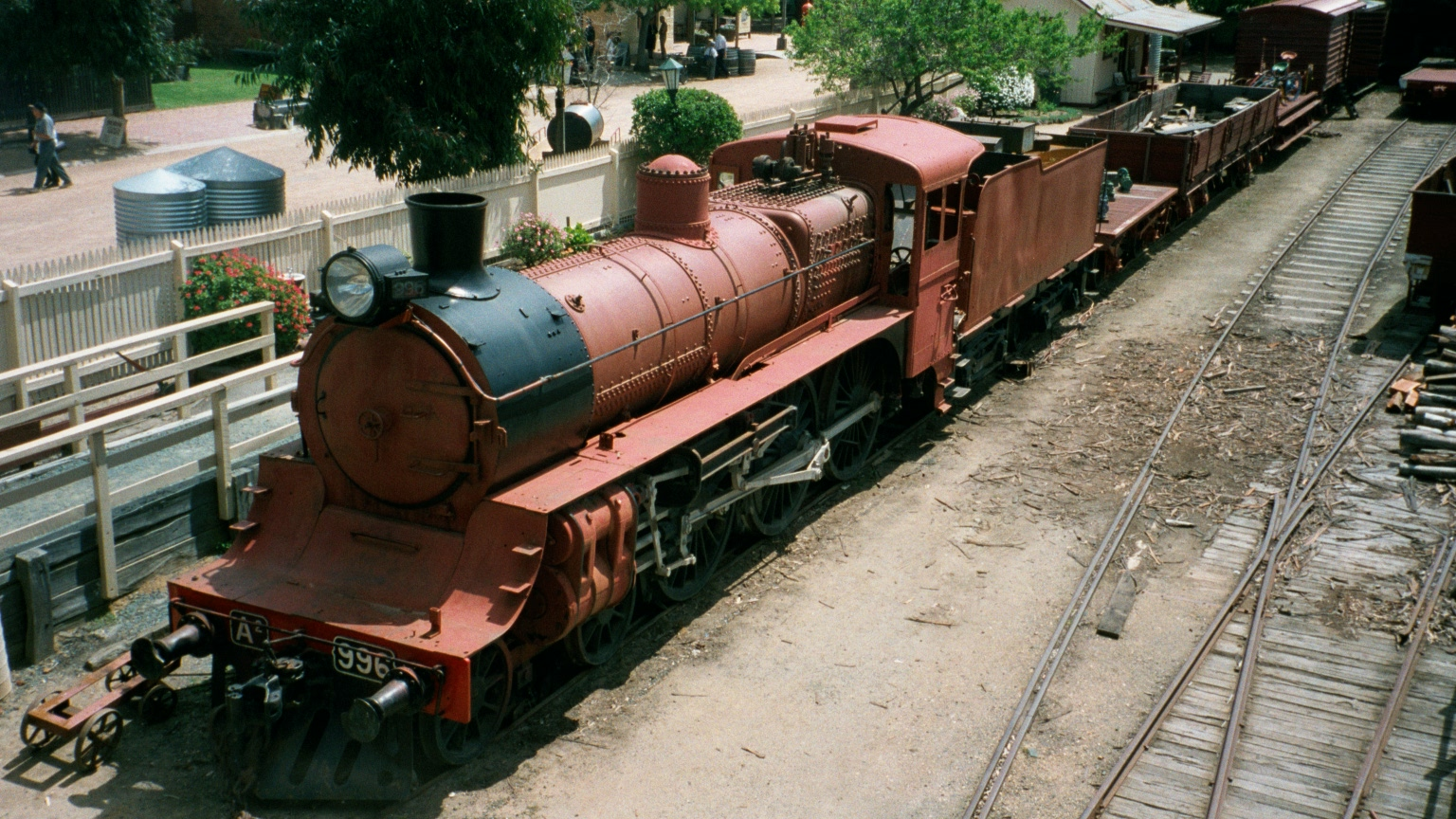 steam locomotive, Echuca, Australia